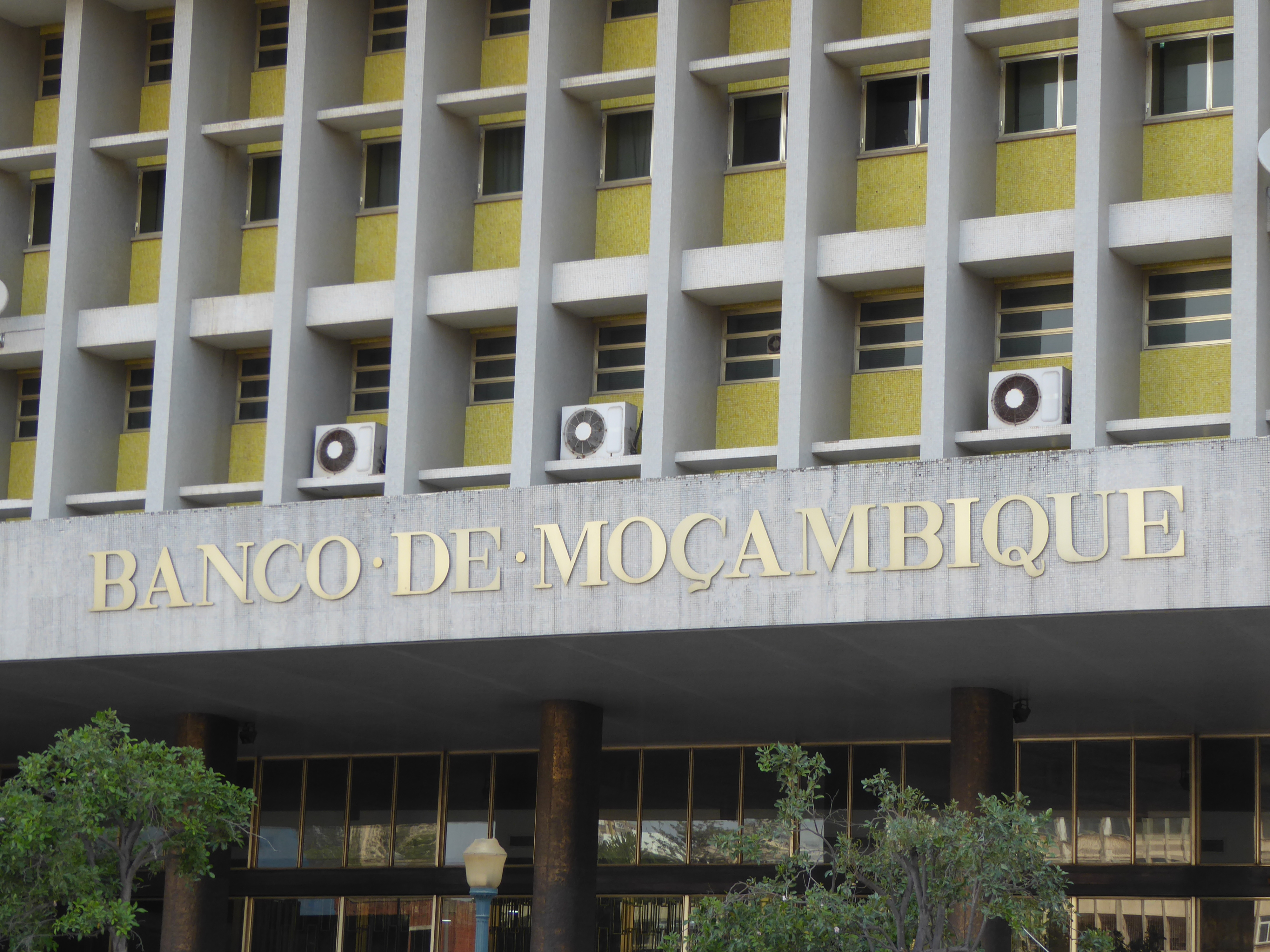 Main building of Banco de Moçambique, seen from Avenida 25 de Setembro; Maputo, Mozambique